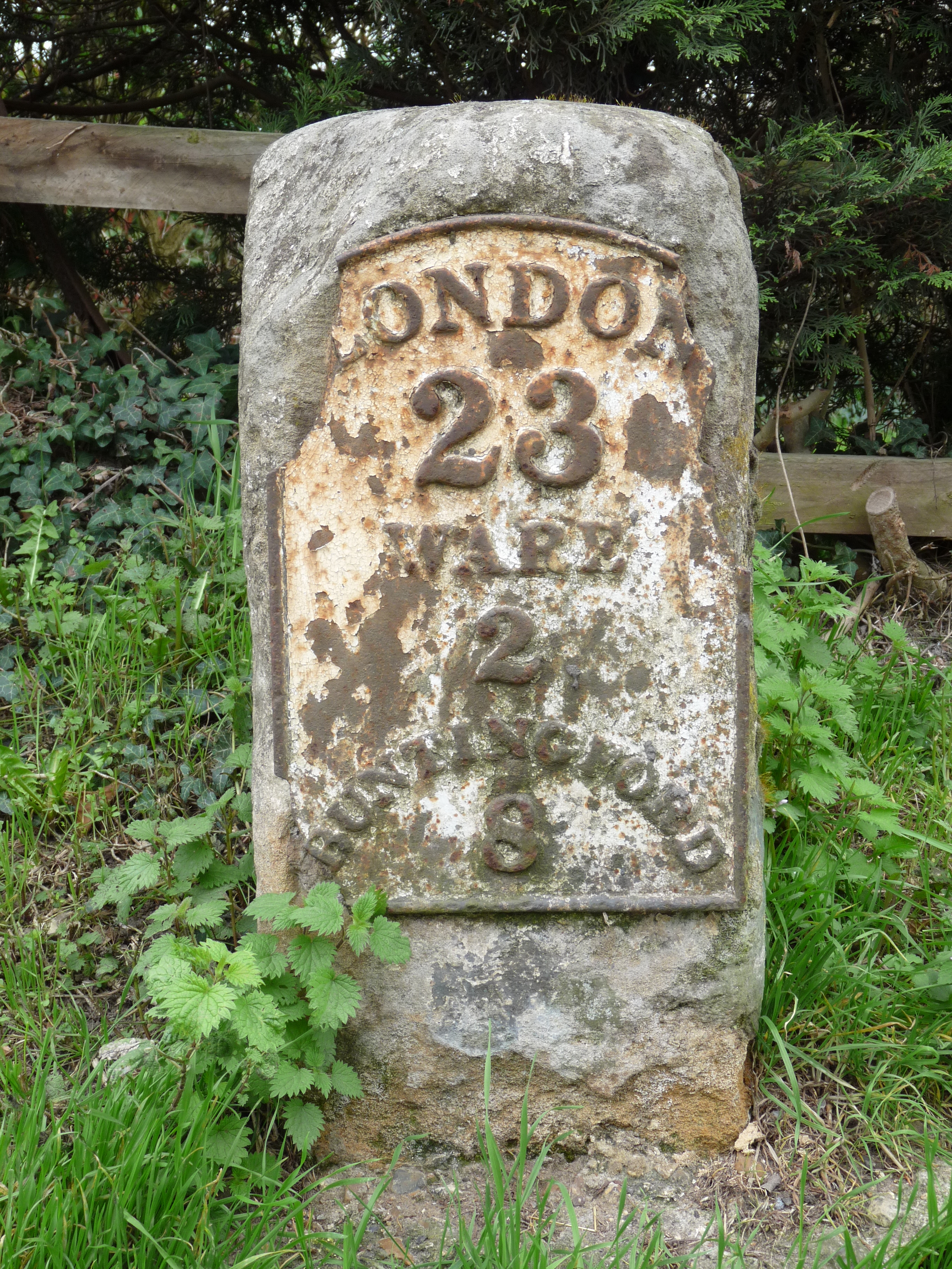 Milestone Society reference HE_LK23 On C183 in Thundridge parish